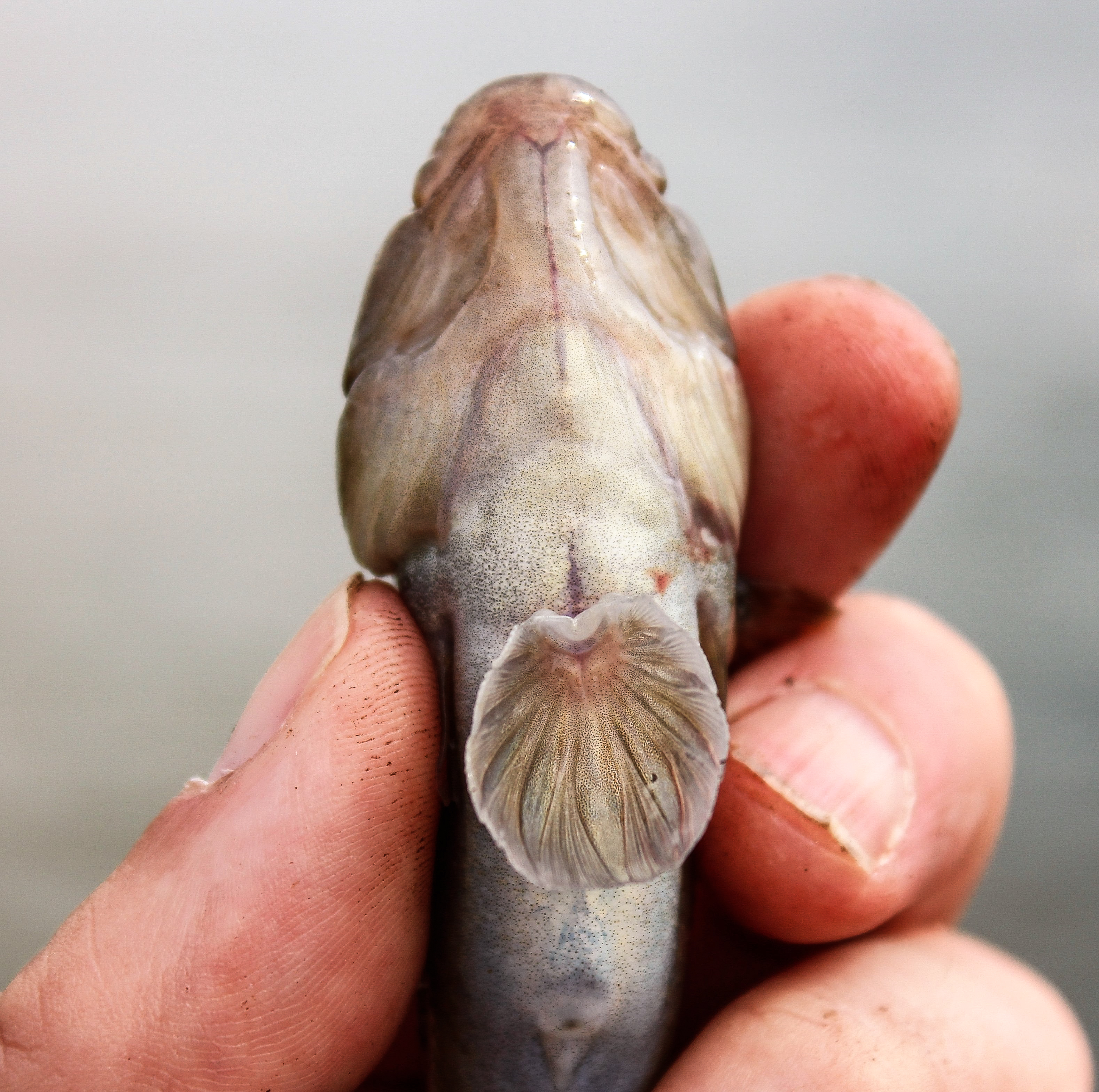 With the suction cup sucks the round goby on stones